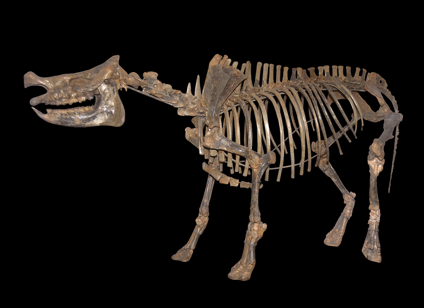 Diceratherium NHM